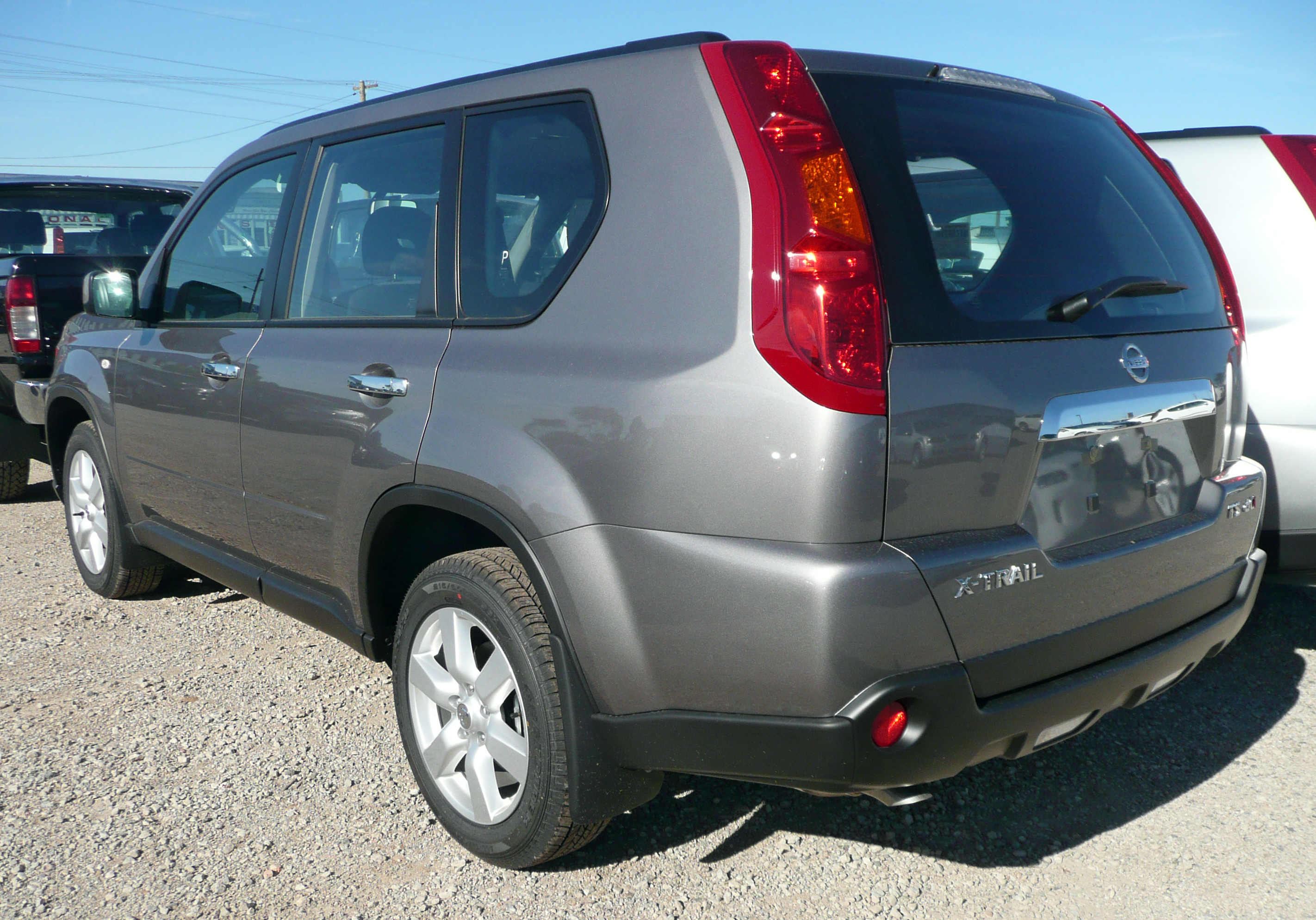 2009 Nissan X-Trail (T31) TS dCi wagon. Photographed in Kirrawee, New South Wales, Australia.